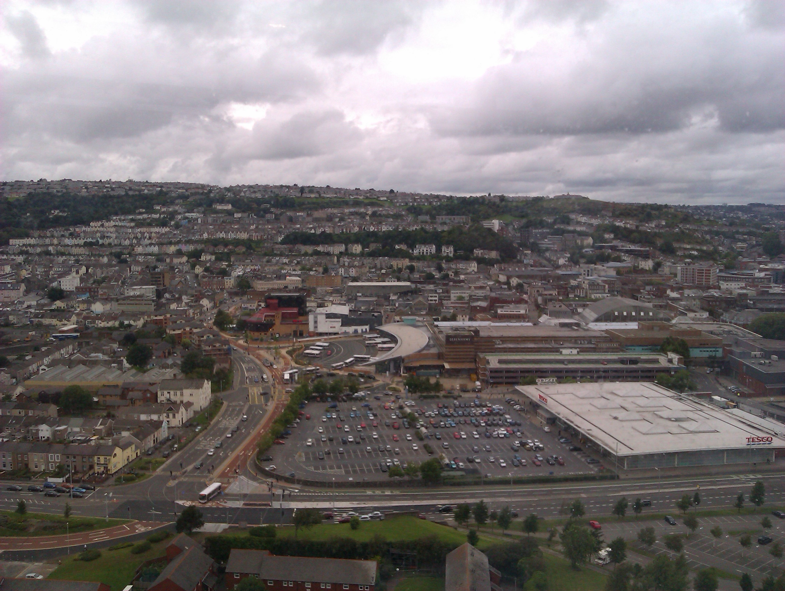 A view of Swansea, Wales, from the top of the Meridian Tower. In the centre is the Swansea bus station, the red building behind it is the Grand Theatre. The car park belongs to the Tesco supermarket to its right, while the large complex behind it is the Quadrant Shopping Centre. The road is West Way, and the red part of it is the 'Metro' track - a bi-directional red-tarmaced dedicated busway which parallels Orchard Street, The Kingsway & West Way, linking the station in the north to the Civic Centre in the south. It was built for the Swansea ftrmetro, an ftr bus rapid transit system which uses special articulated buses, although other buses can also use the track too, as pictured here.